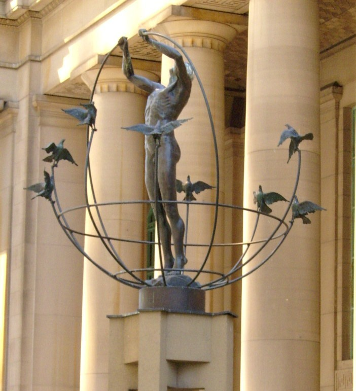 Statue titled, Monument to Multiculturalism by Francesco Pirelli, Union Station, Toronto